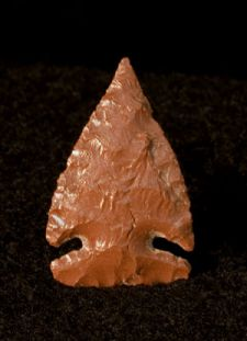 "TIME MARKER" ARTIFACT-Desert Archaic Tradition. Northern side-notched point from the A layer -- original caption --from Wilson Butte Cave, Idaho